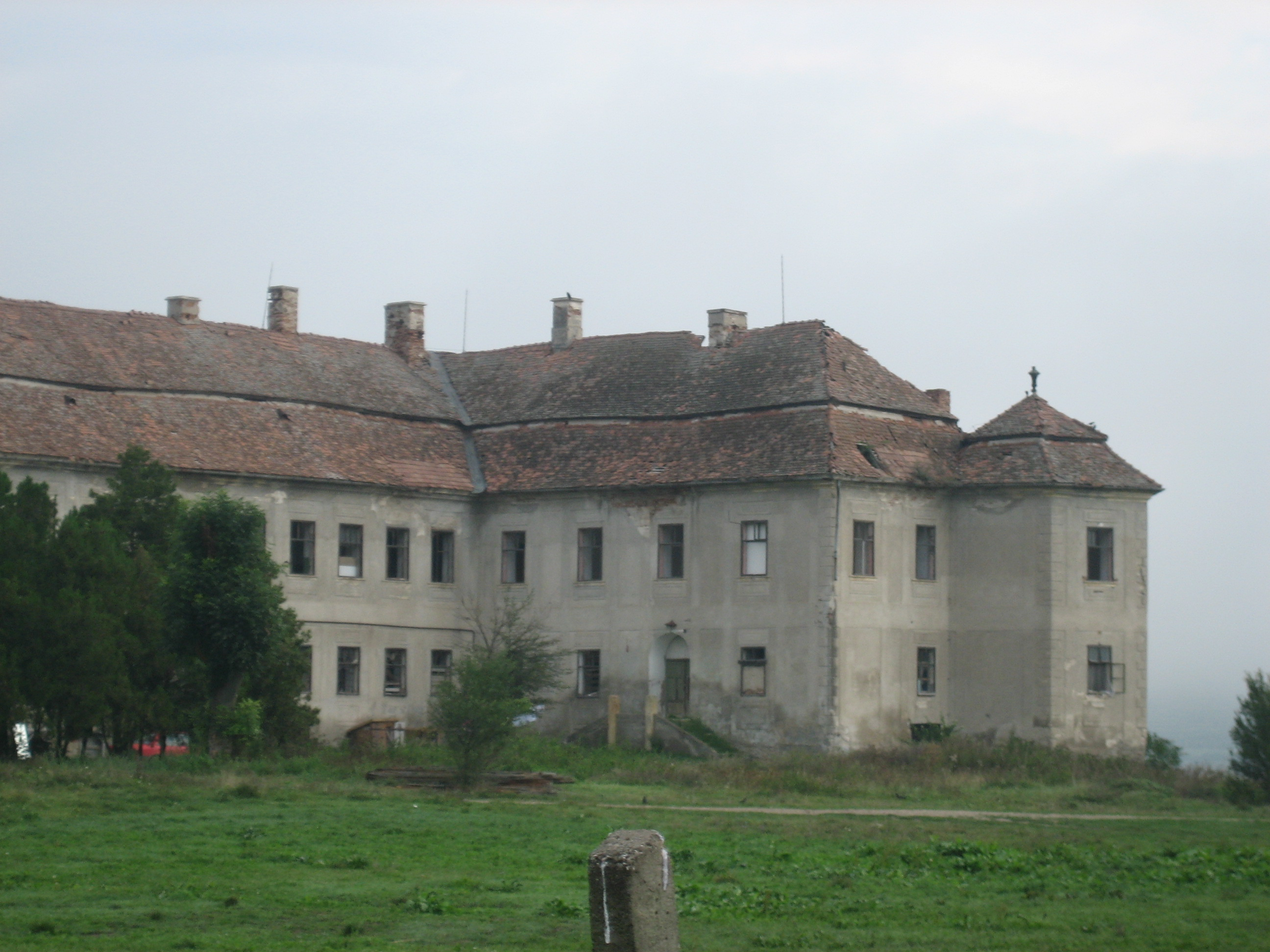 Castle of the Kemény-Bánffy family, 16. century) in Luncani, Cluj County, Romania.